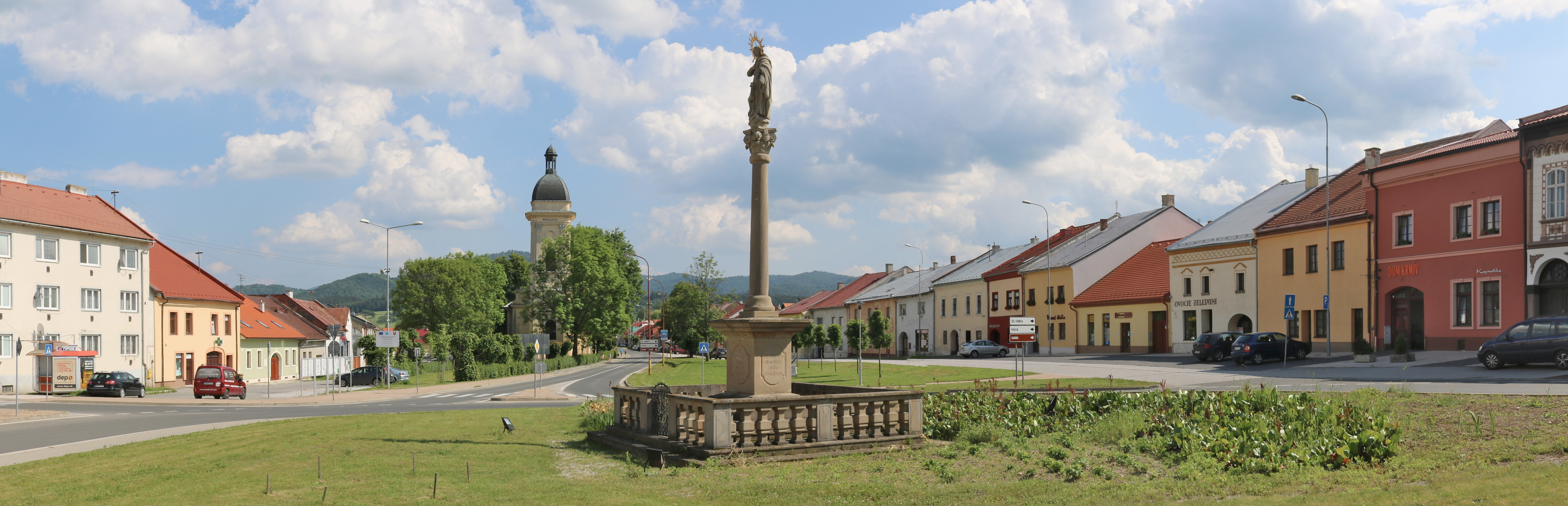 Central Square / Spišské Vlachy